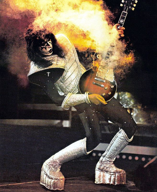 Trade ad for Kiss's Alive II. To better adapt it to his respective Wikipedia article, the ad was cropped and cleaned in a graphics editing program. The original can be viewed at the source below.